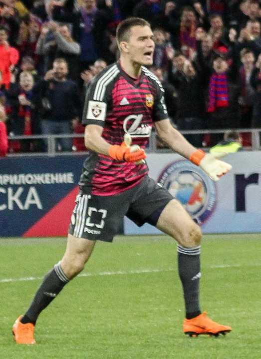 Igor Obukhov with FC Arsenal Tula in a game against PFC CSKA Moscow.